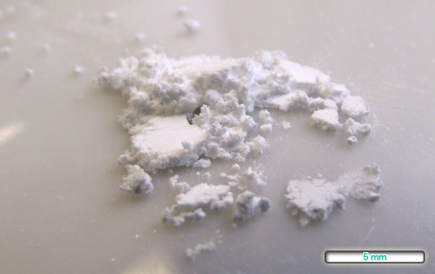 Photo of Aciclovir, pure